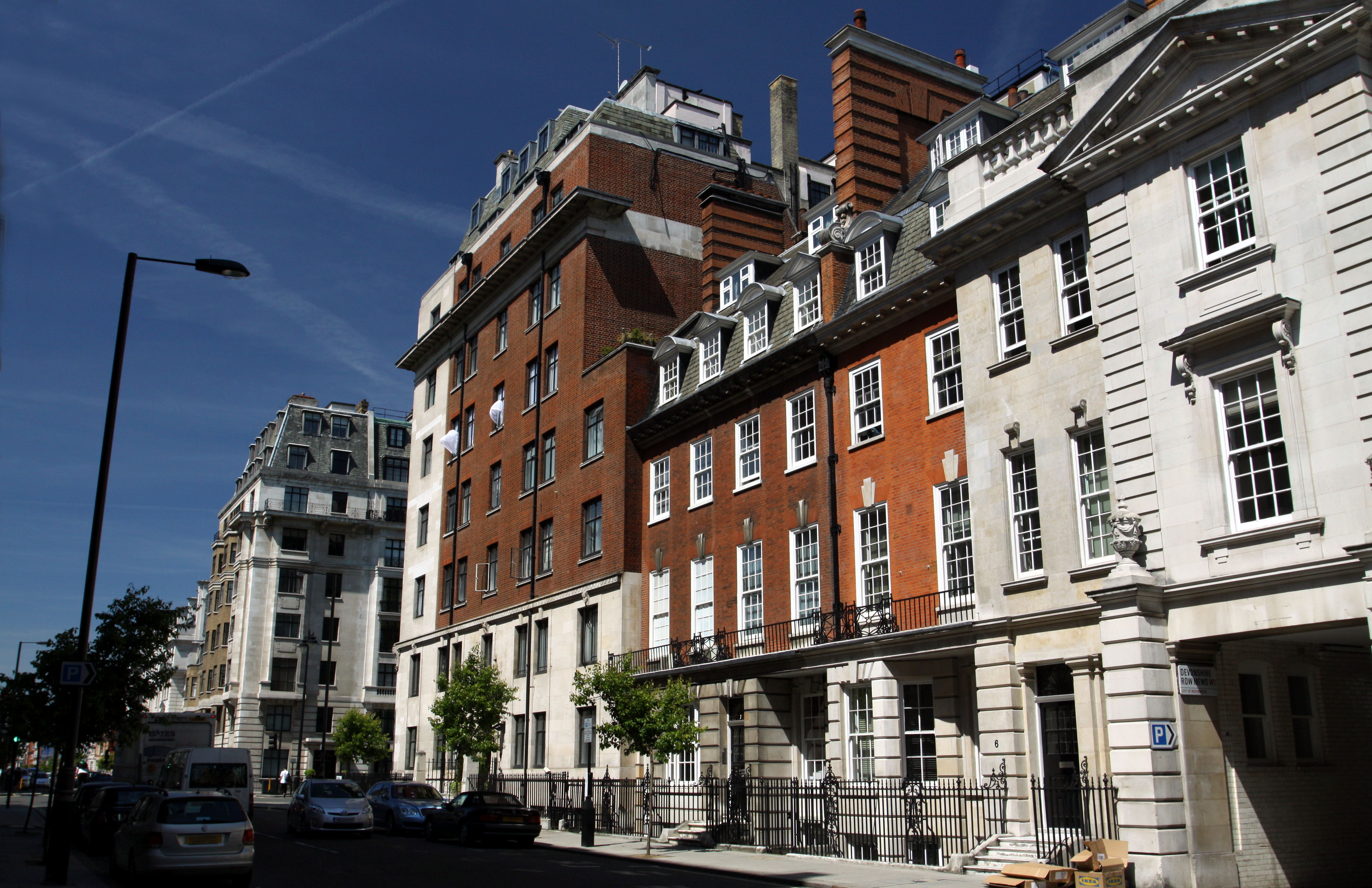 Devonshire Street in the City of Westminster, London, England, Great Britain The making of this file was supported by Wikimedia UK.